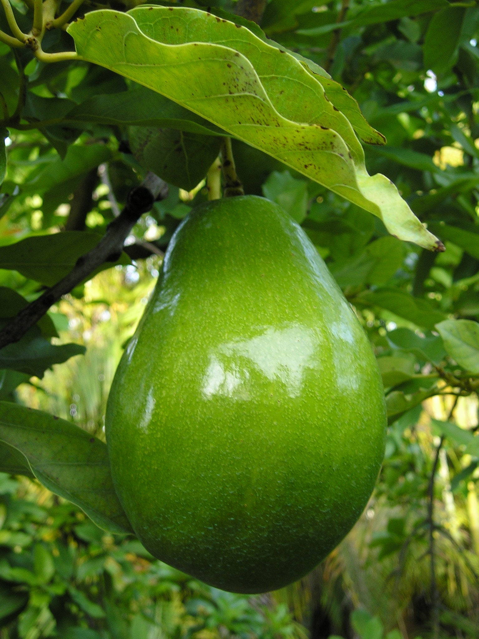 Taken on a grove near Homestead, Florida.